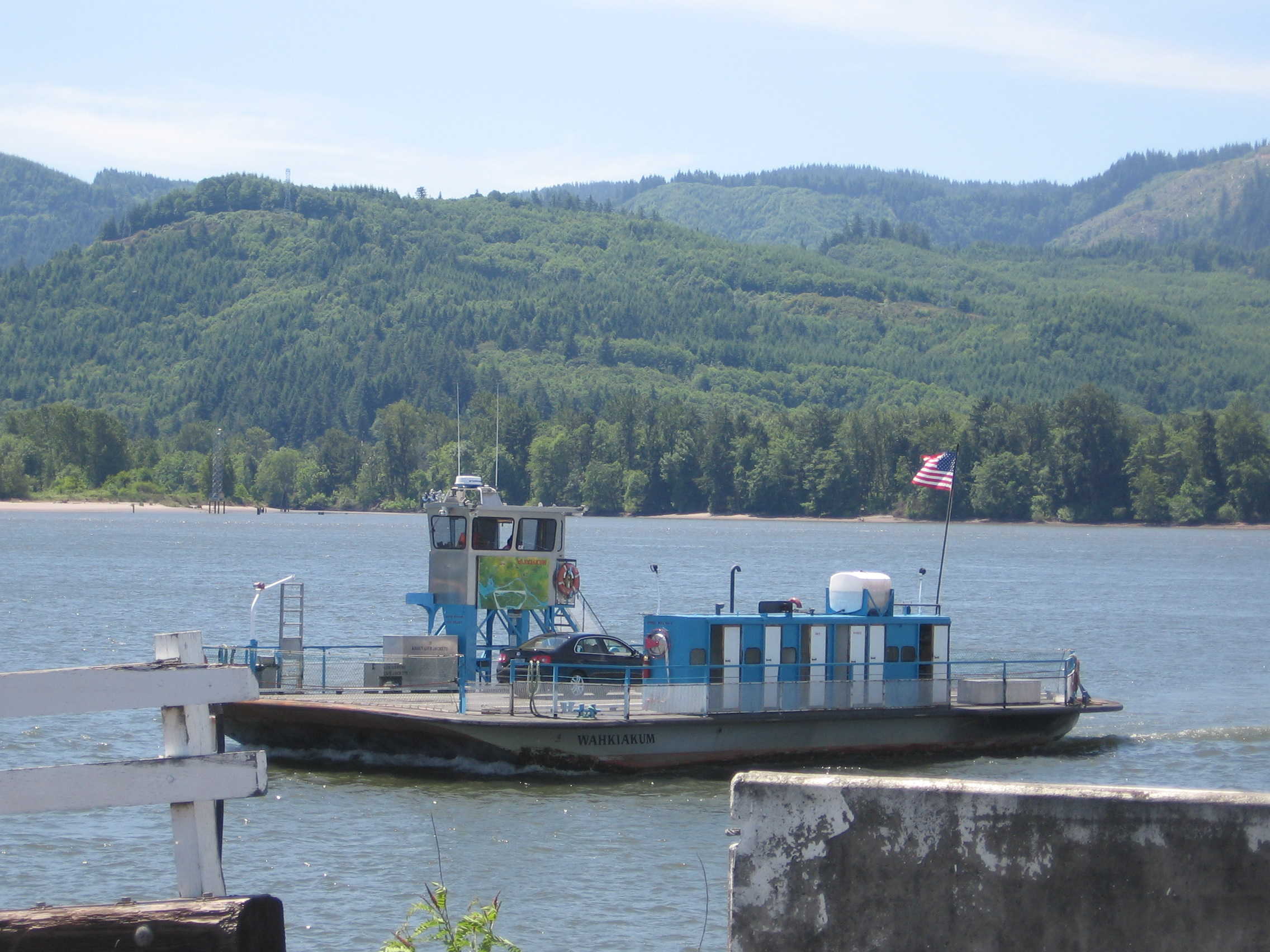 Wahkiakum County Ferry, Columbia River, between Cathlamet, Washington and Westport, Oregon.